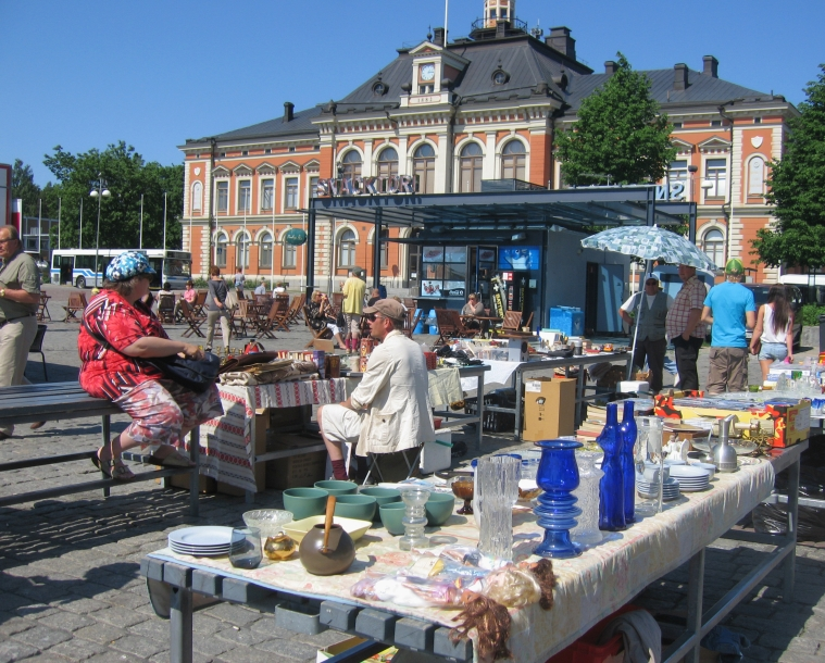 Kuopio market place in Finland, fleemarket